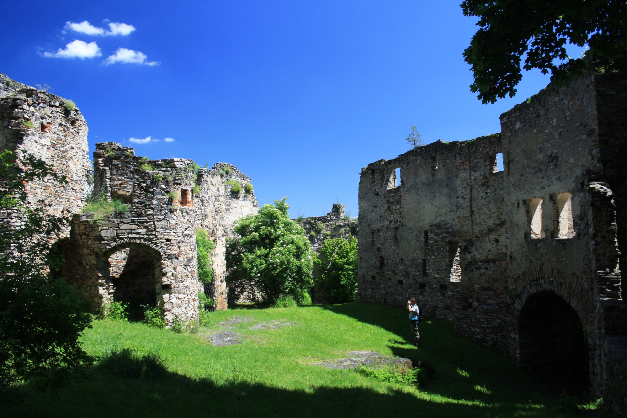 Remains of the Schauenstein Castle